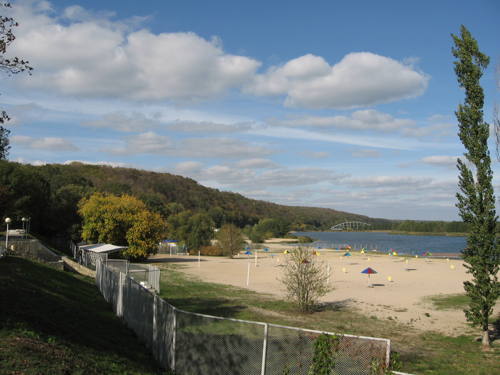 Bald Mountain (Voronezh)